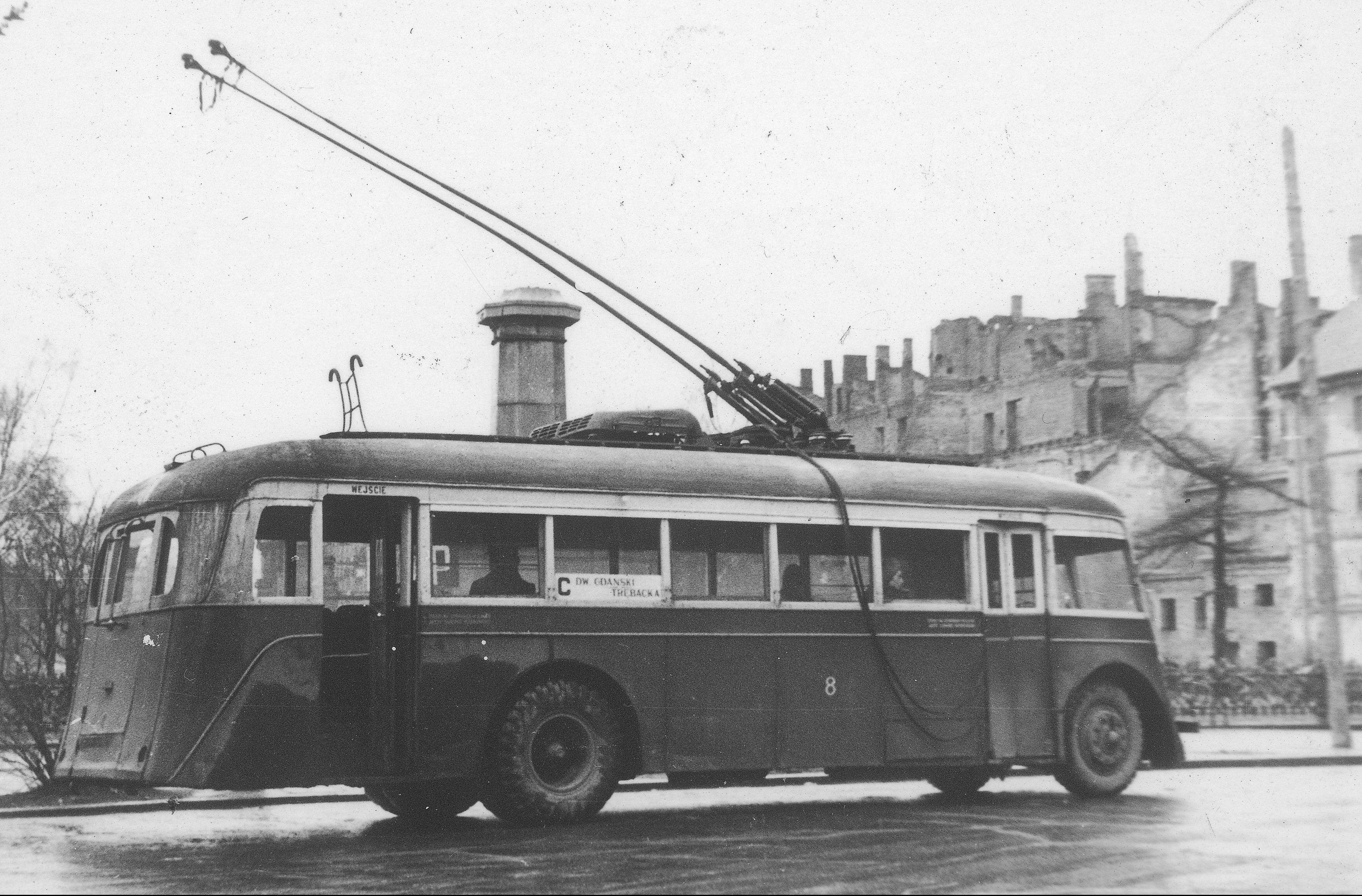 YaTB-2 trolleybus in Warsaw.